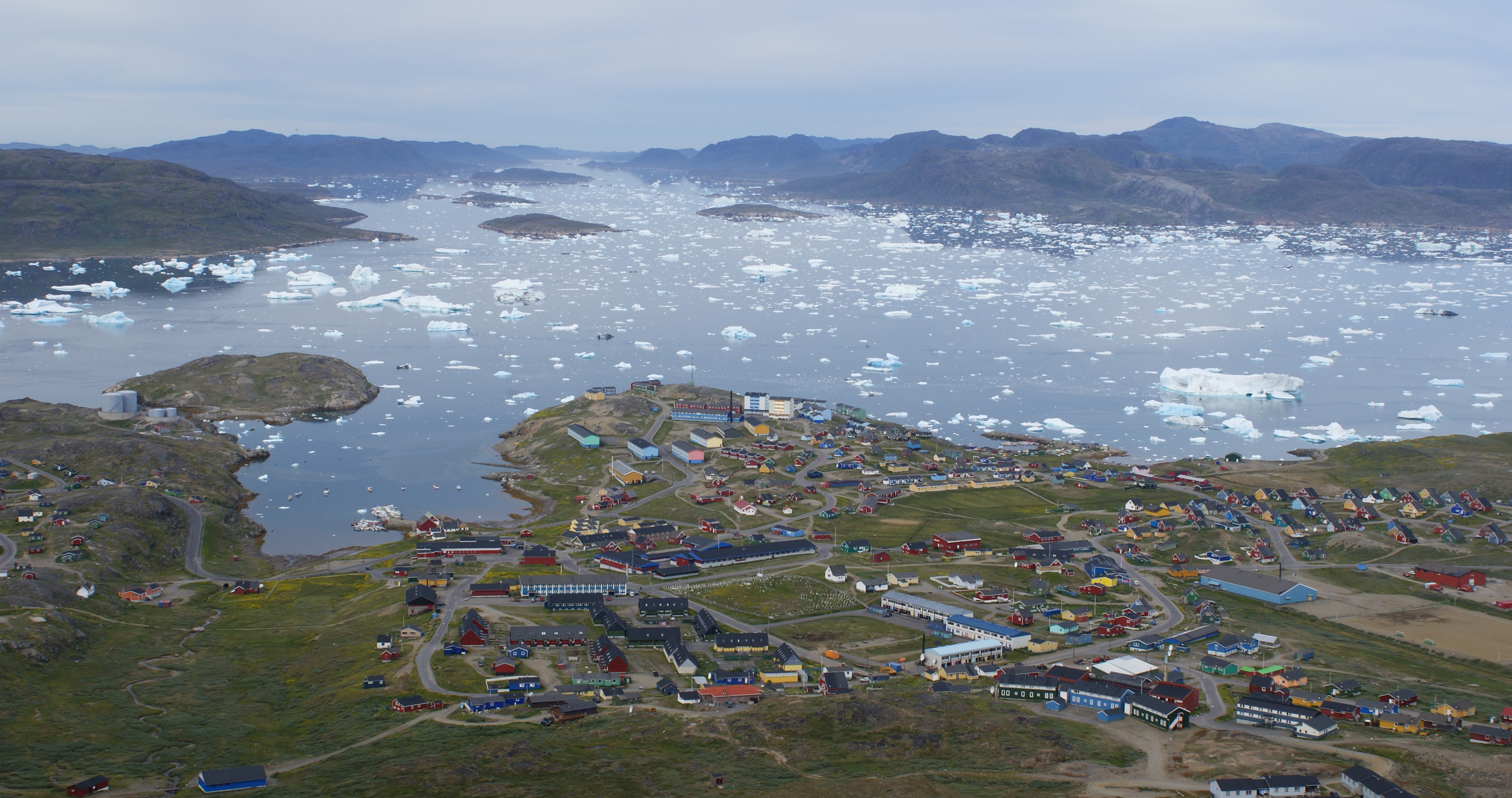 Narsaq, a major settlement in Kujalleq, southern Greenland, photographed from Qaaqarsuaq mountain